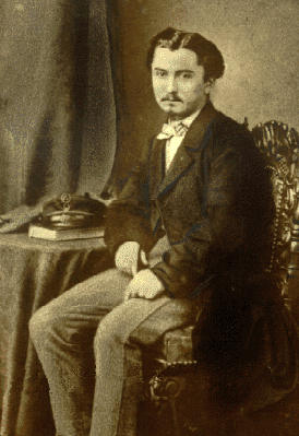 Photo of Gentil Antheunis (ca. 1865), a Belgian writer. Permission granted to use the image from the AMVC archive by the AMVC-Letterenhuis, Minderbroedersstraat 22, 2000 Antwerpen, Belgium.